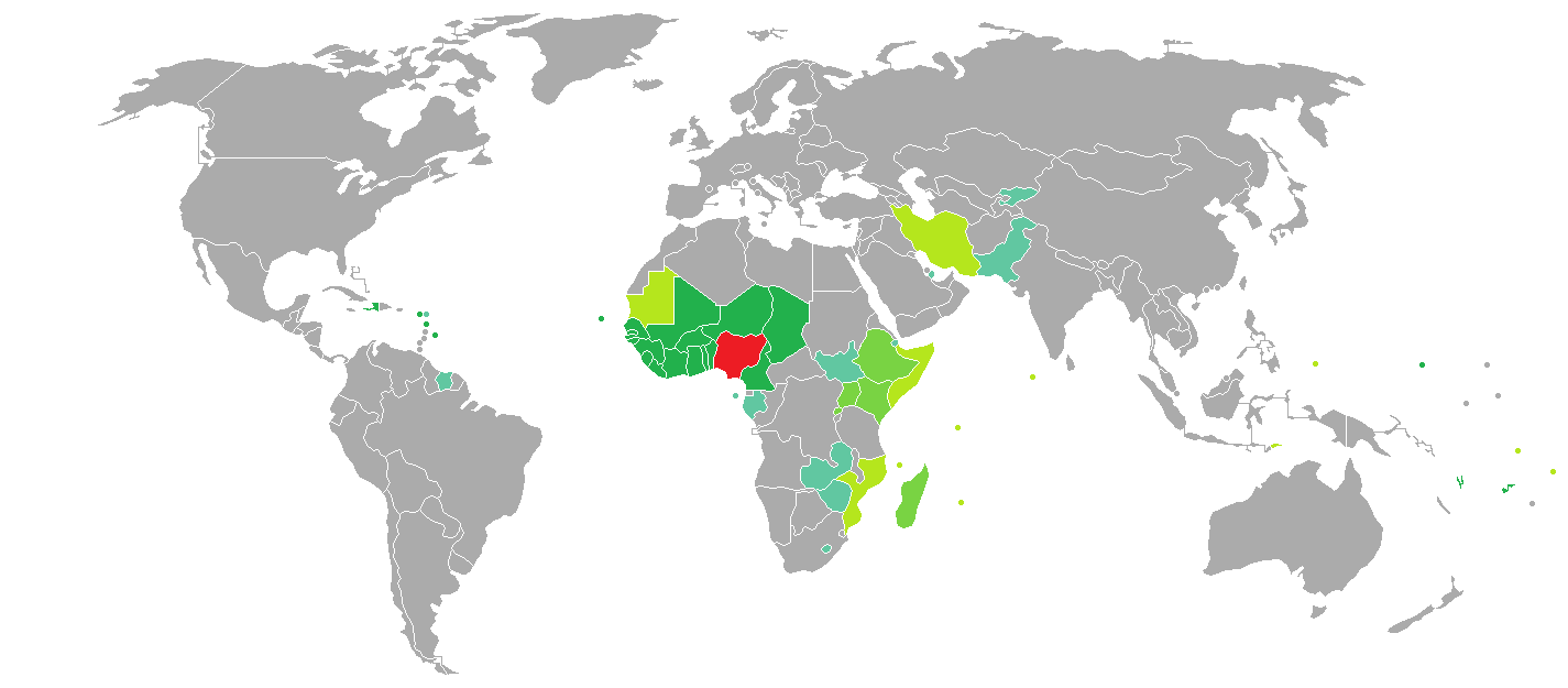 Visa requirements for Nigerian citizens Nigeria Visa free access Visa on arrival eVisa Visa available both on arrival or online Visa required